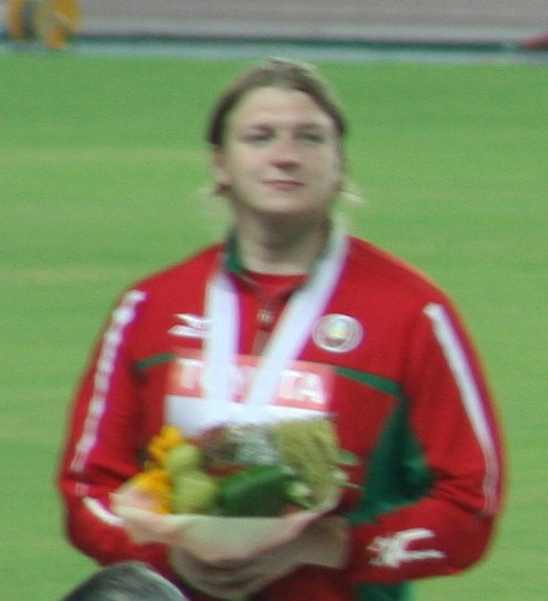 World Athletics Championships 2007 in Osaka - Nadzeya Ostapchuk at the Victory Ceremony for the Women's Shot Put